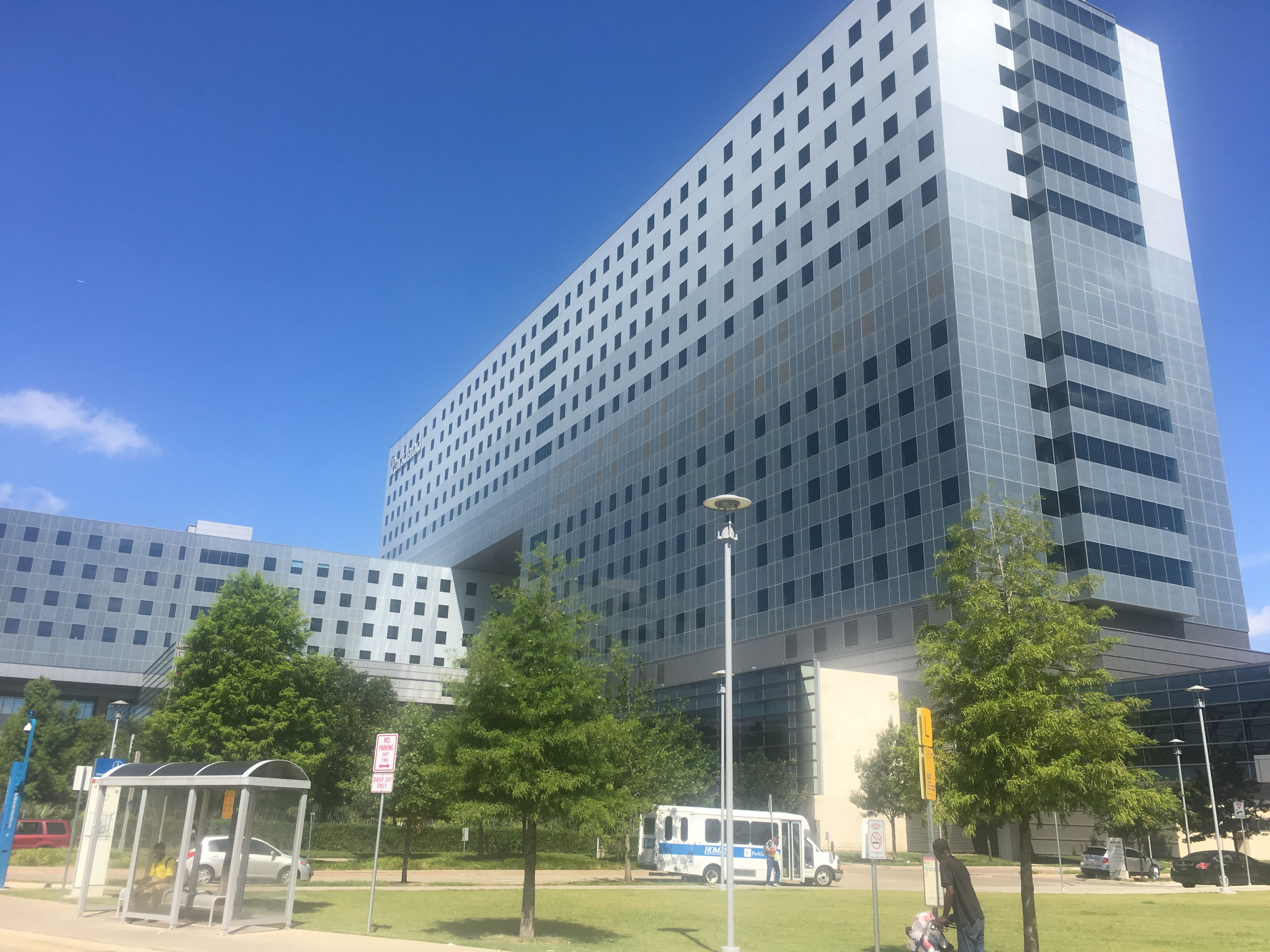 Parkland Memorial Hospital, Dallas, Texas